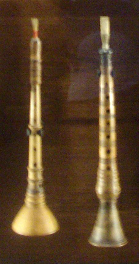 Tarogato - two old instruments